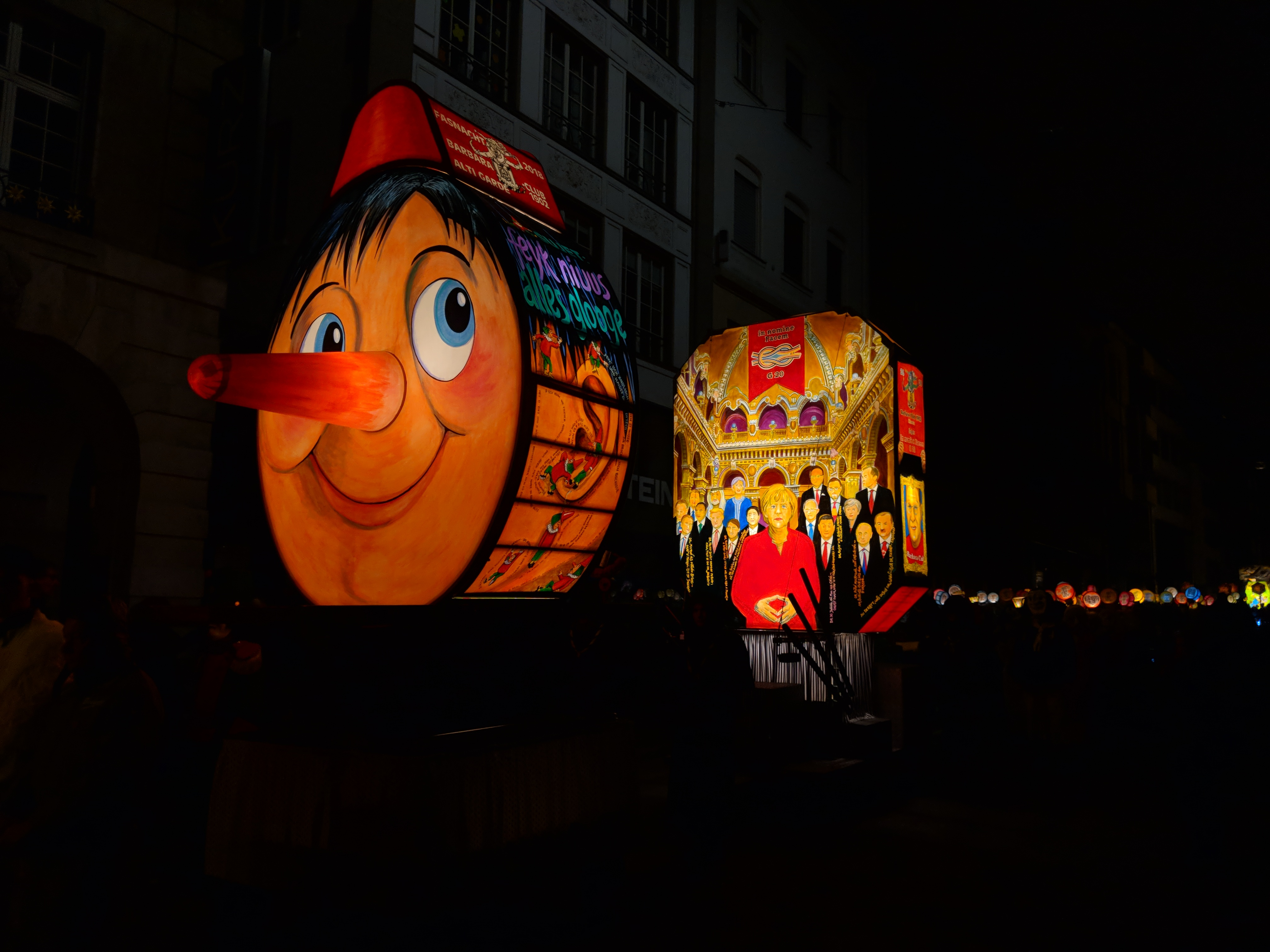 Morgestraich - Basler Fasnacht 2018